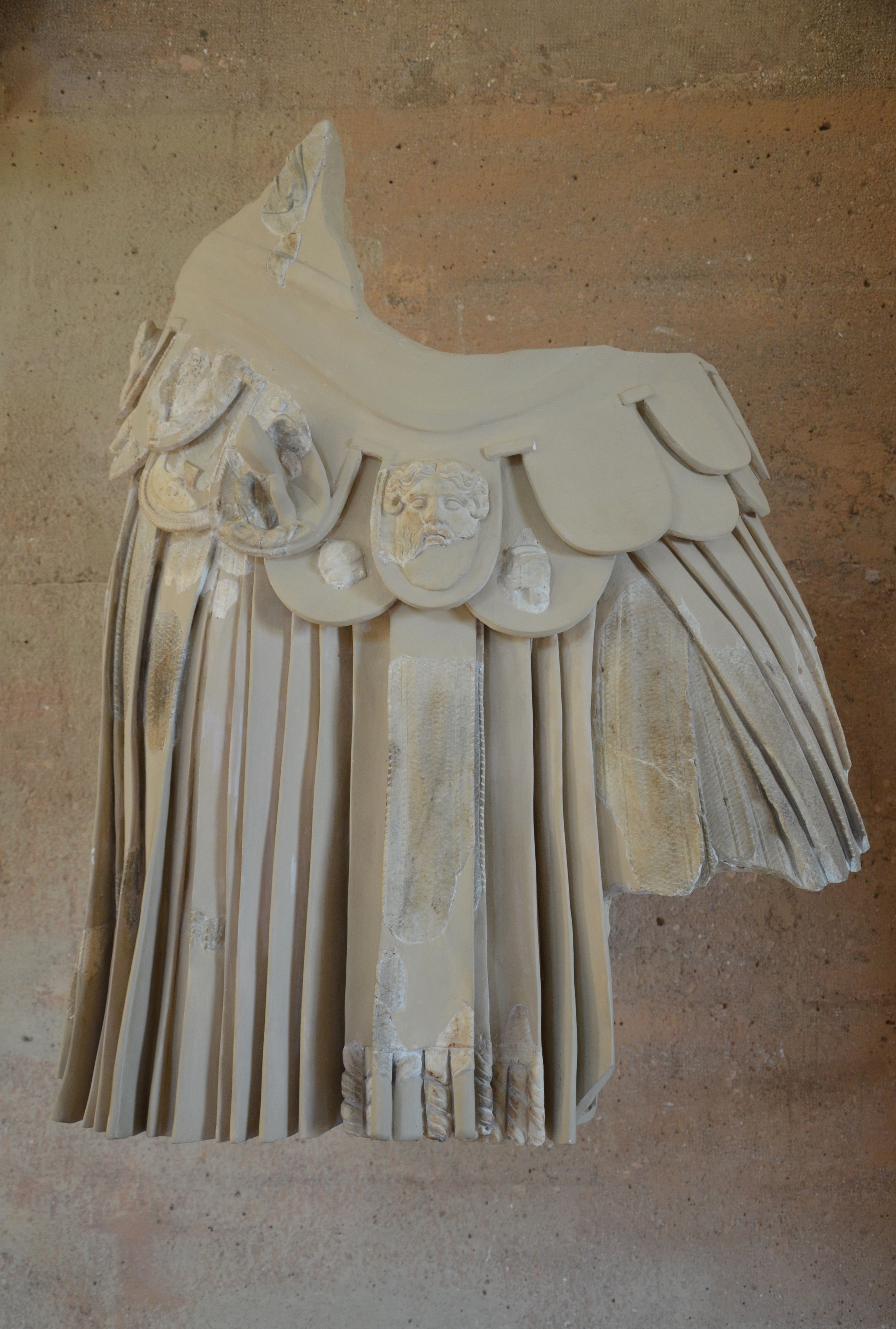 Statue of Hadrian in armour (what remains of it), from the Odeon of Corinth, partly reconstructed, Archaeological Museum of Ancient Corinth, Greece